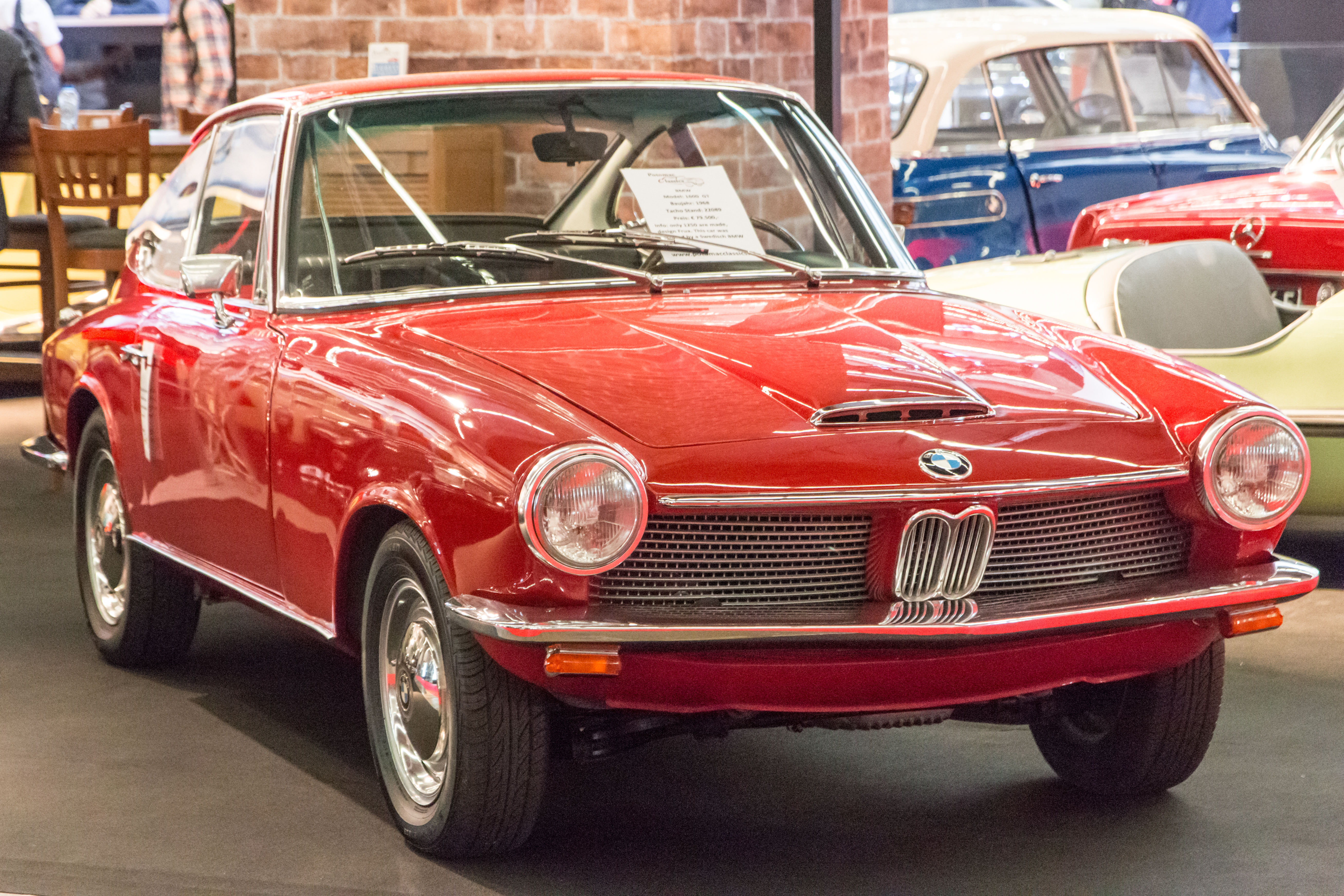 BMW 1600 GT